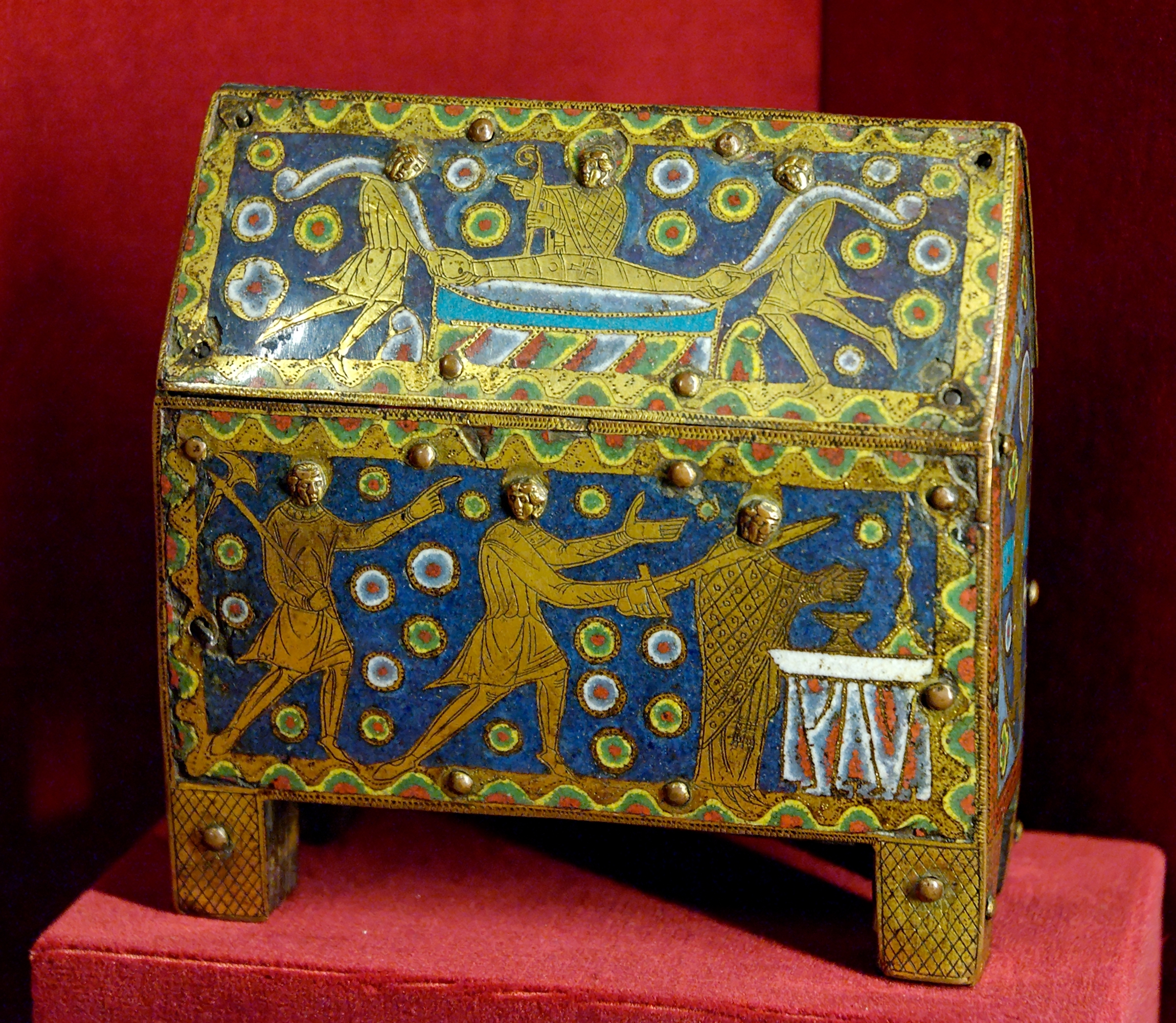 Reliquary of St. Thomas Becket. Champlevé copper, engraved, chased, enameled and gilt. Limoges, first quarter of the 13th century.